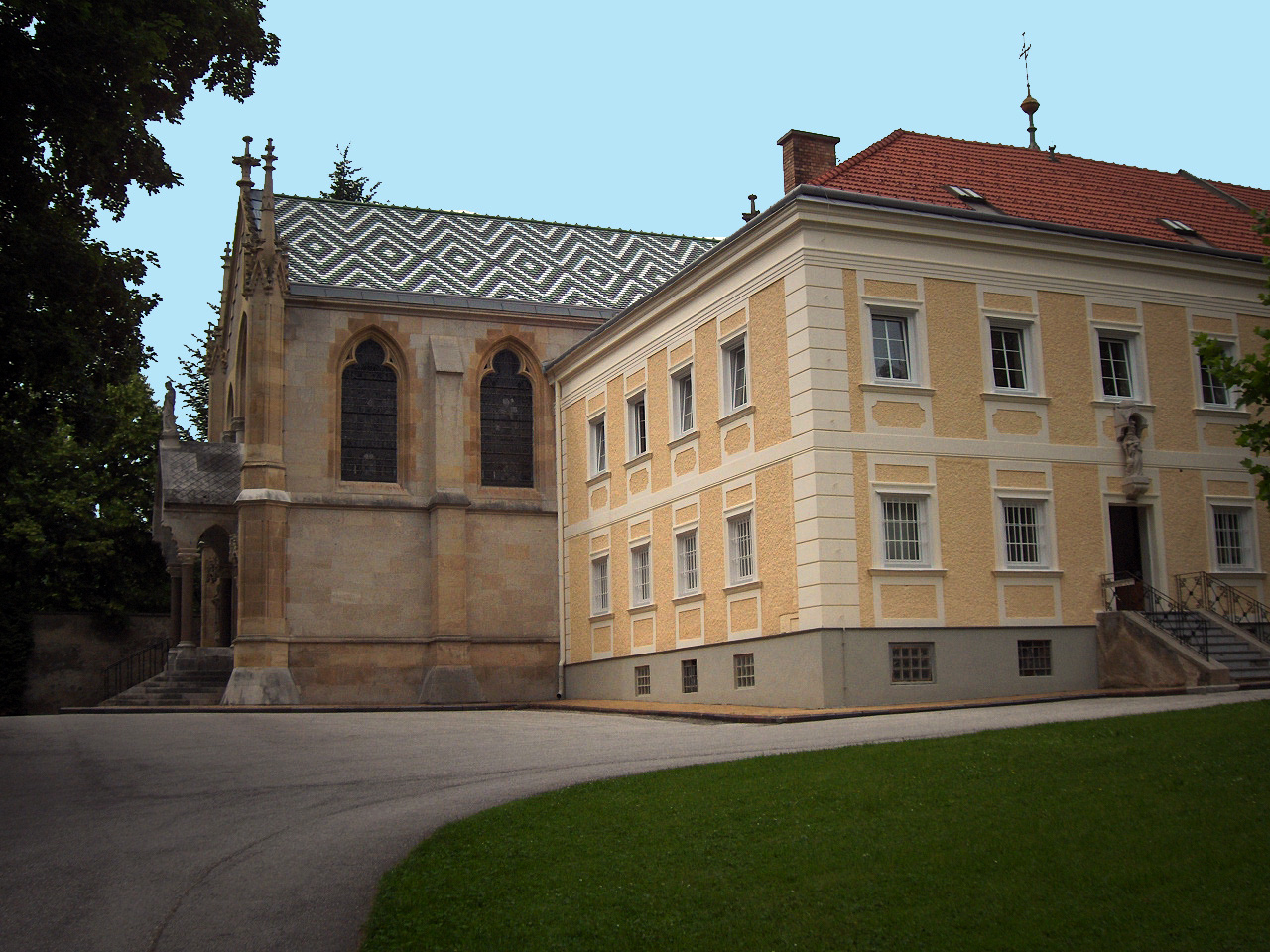 Mayerling, scene of the drama with Crown Prince Rudolph of Austria